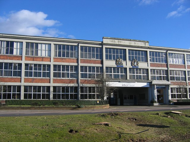 Interfloor - formerly Arron Johnson. Factory in an industrial satellite village of Dumfries. This was once a car factory making Arrol Johnson cars.